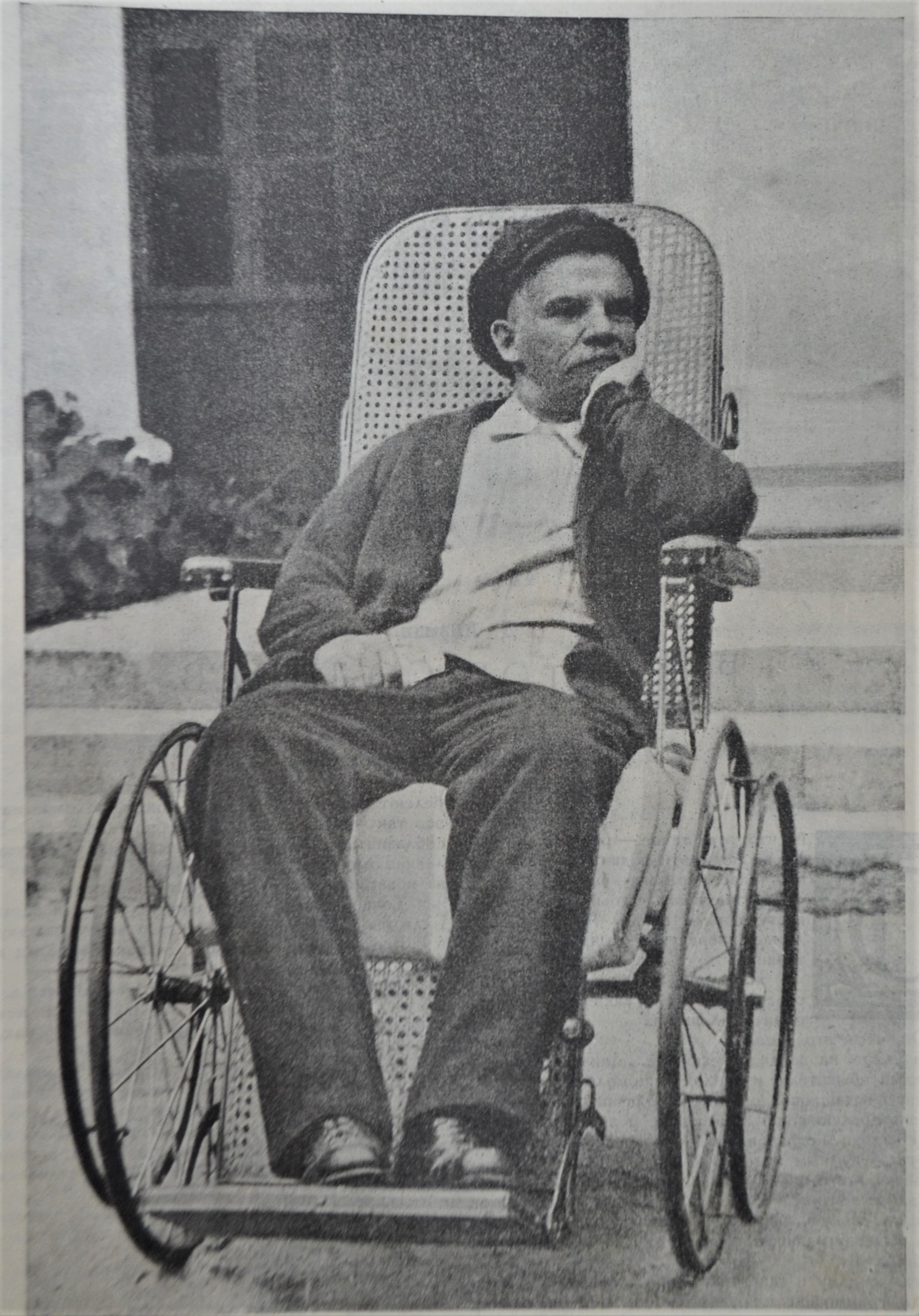 The photo is taken on 28 Aug 1923